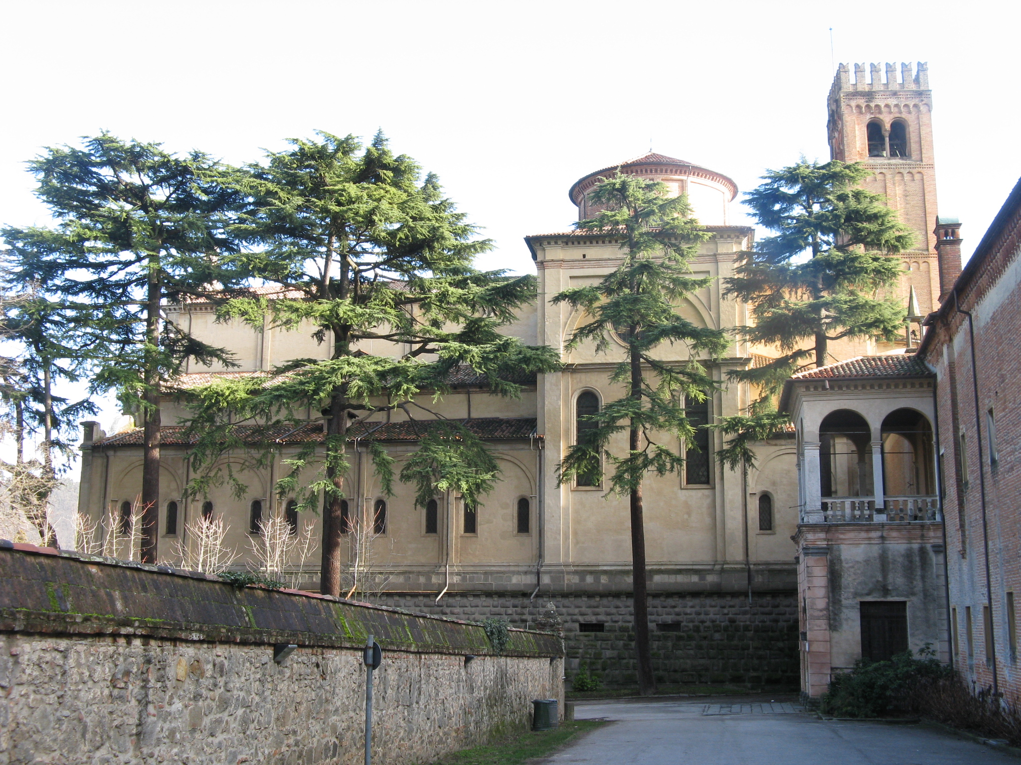 Praglia Abbey, Veneto/Italy